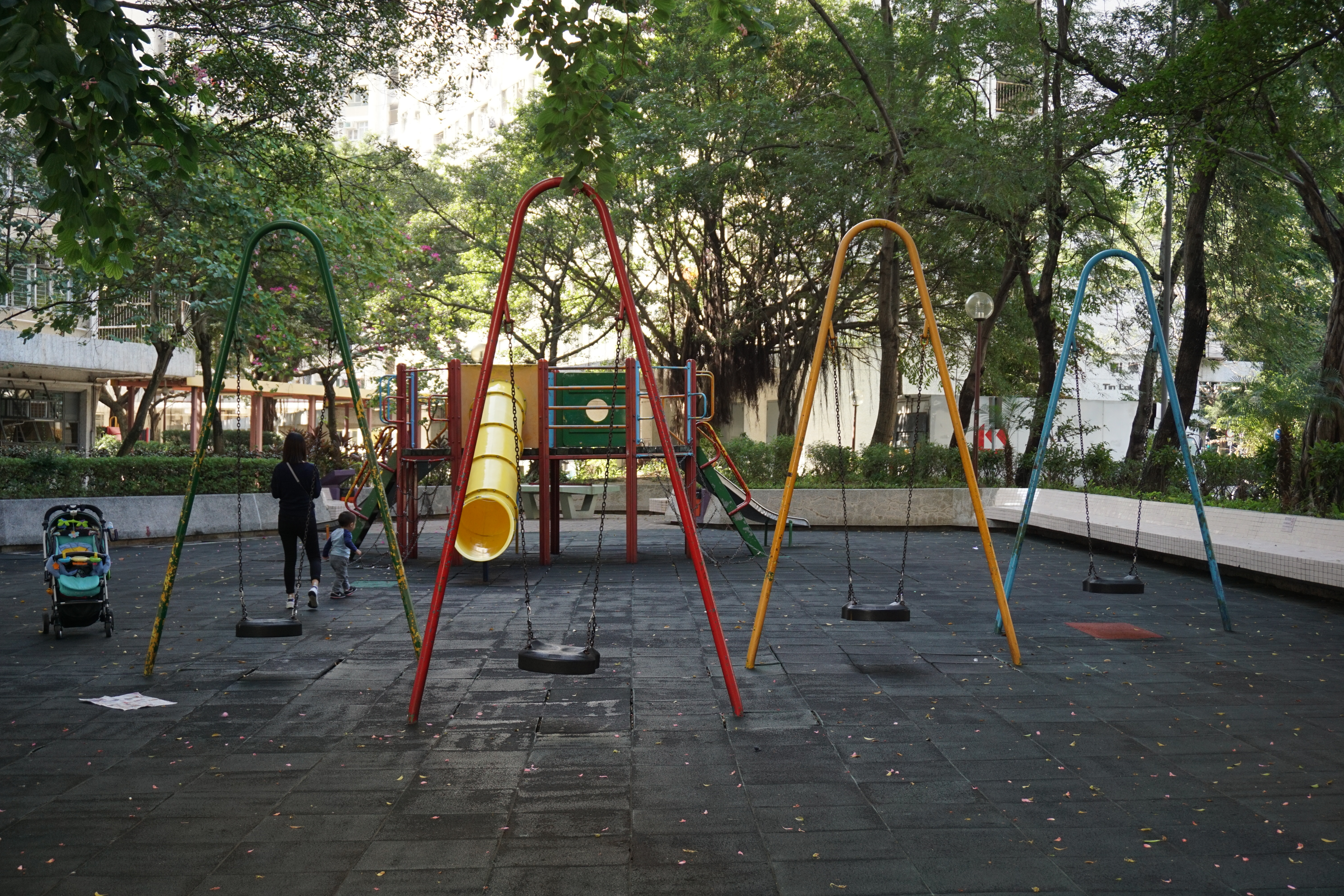 Tin King Estate in Tuen Mun, Hong Kong.